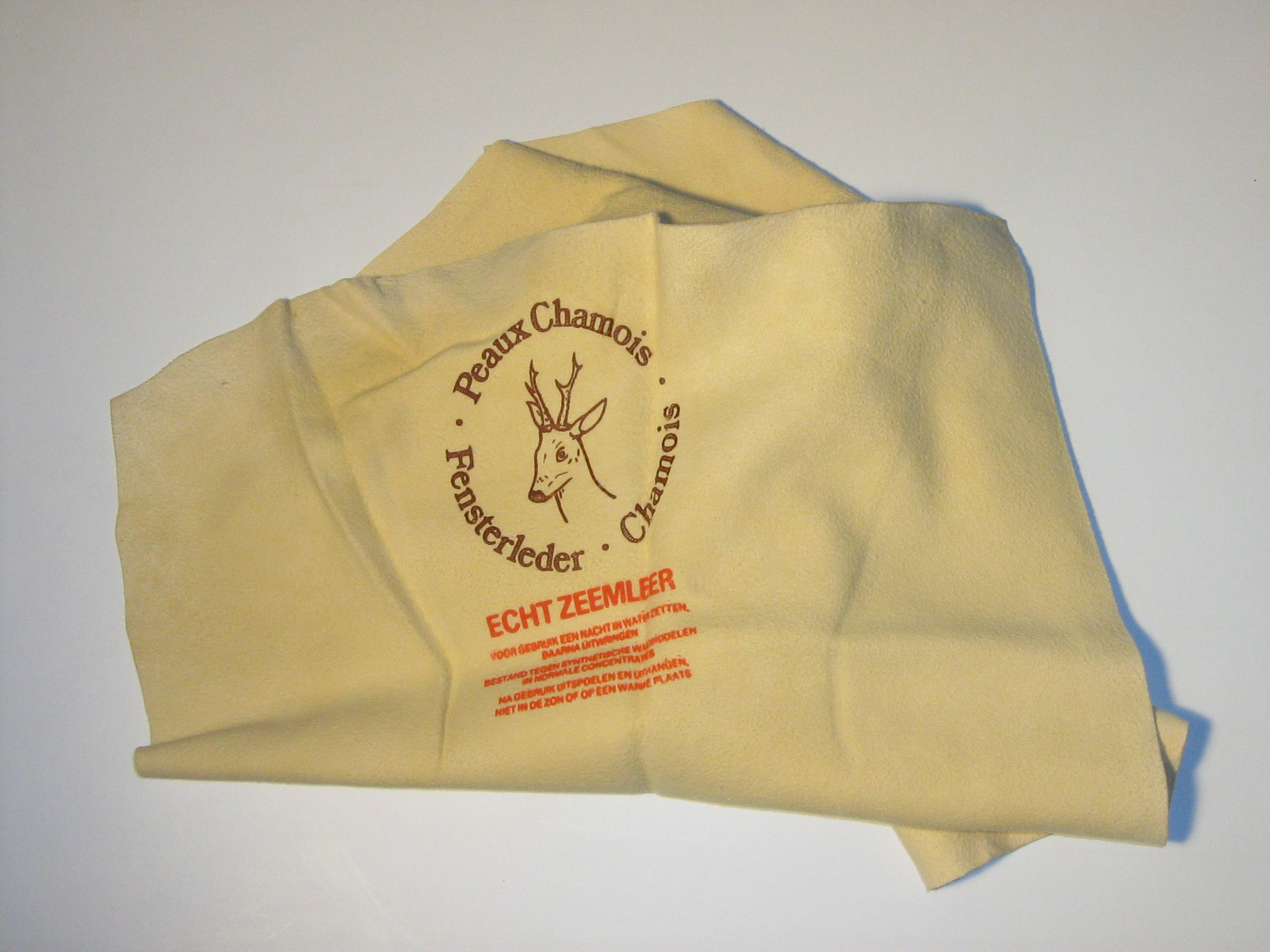 Natural chamois leather towel, to be used in household.